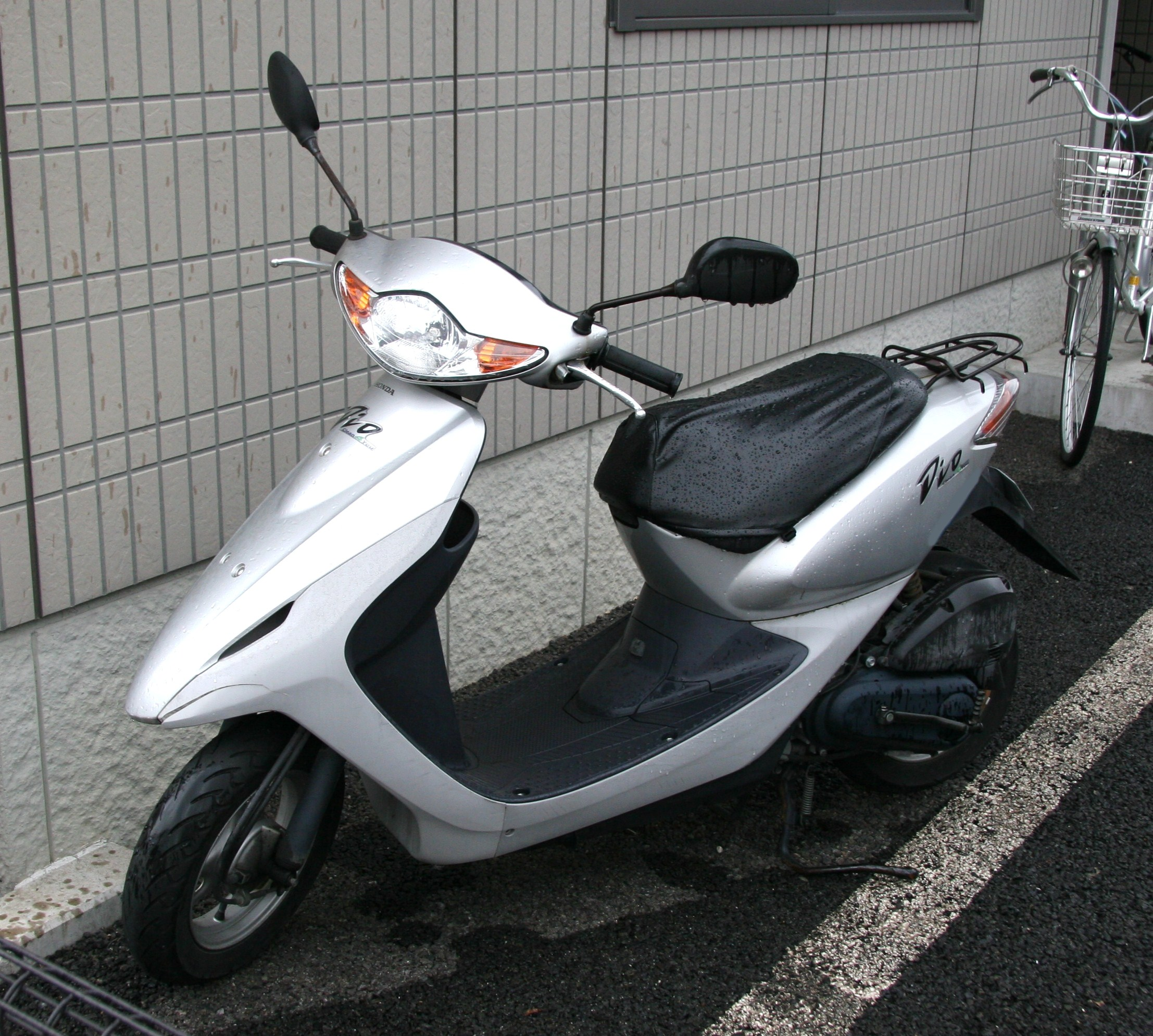 Honda Smart Dio (AF56)